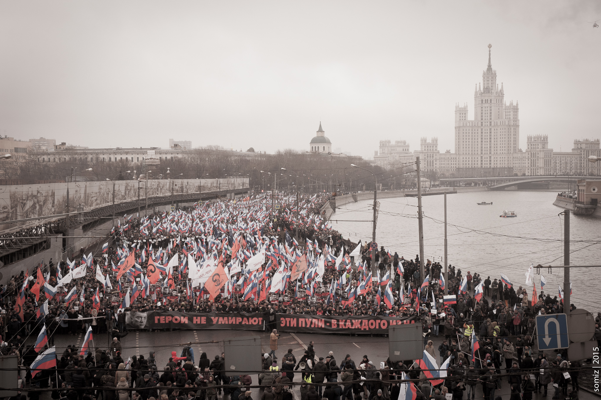 On March 1, 2015 in Moscow held a march in memory of murdered politician Boris Nemtsov. He was one of the opposition leaders who were opposed to Vladimir Putin. On the march memory came tens of thousands of people.